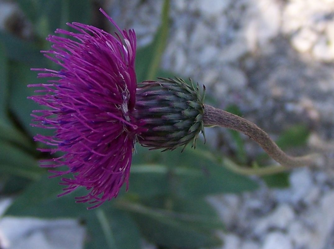 Carduus glaucus (pl. oset siny), habitat: Tatra Mountains, Dolina Jaworzynka